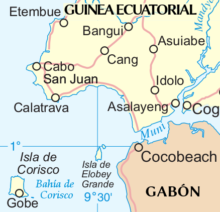 Map of islands of Corisco, Elobey Grande and Elobey Chico, Equatorial Guinea, in Spanish